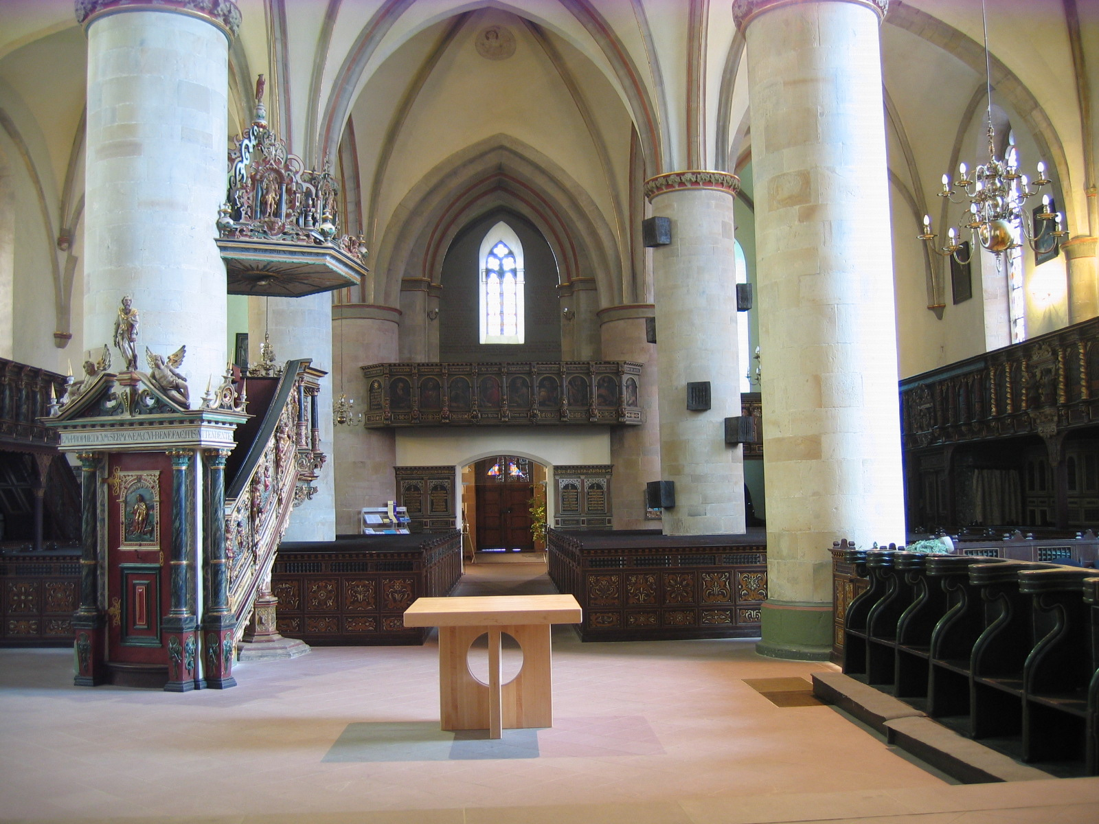 in Herford, District of Herford, North Rhine-Westphalia, Germany.